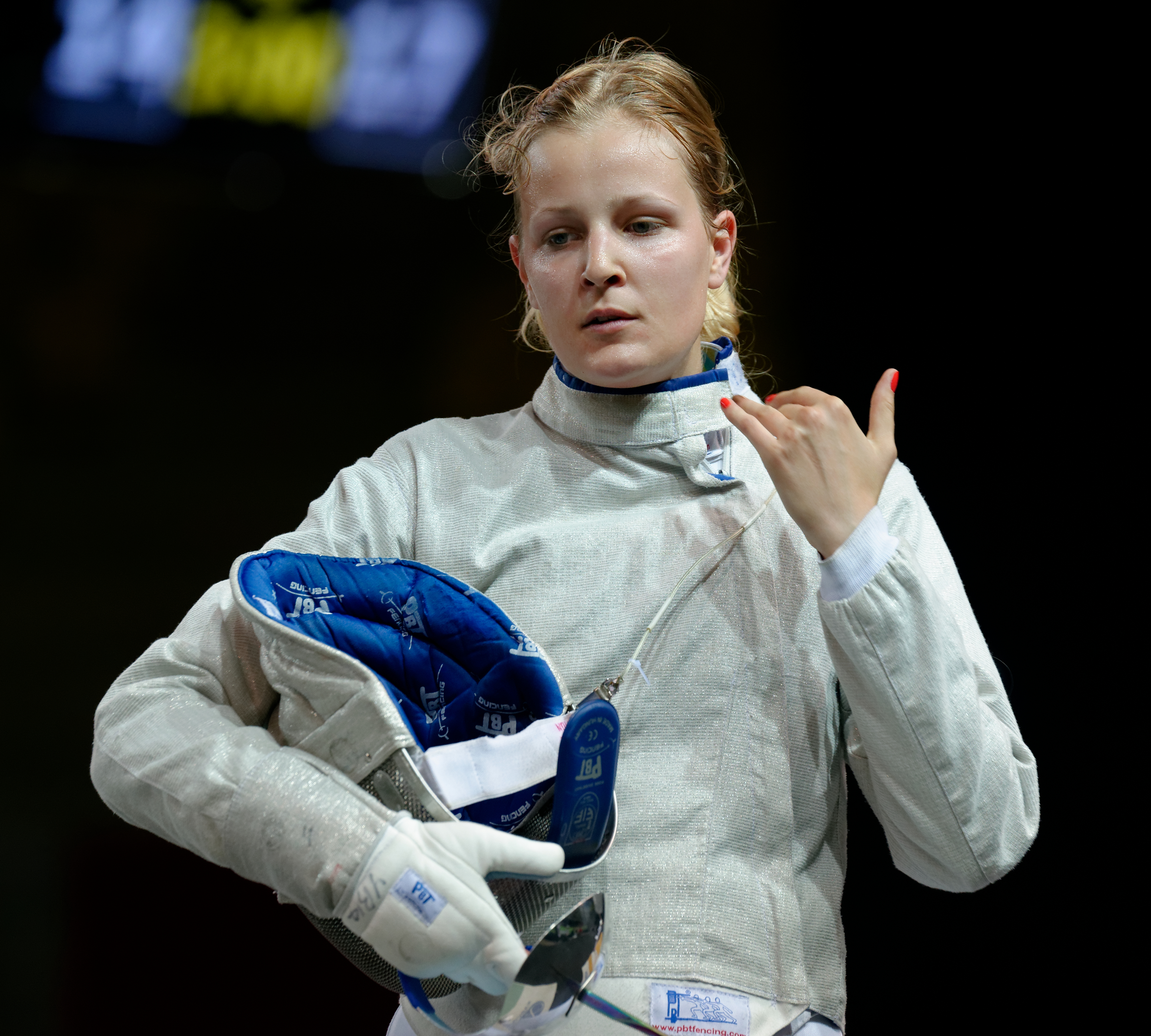 Anna Várhelyi of Hungary during their match for the 3rd place against Ukraine in the women's team sabre event at the European Fencing Championships at Rhénus Sport in Strasbourg on 13 June 2014.